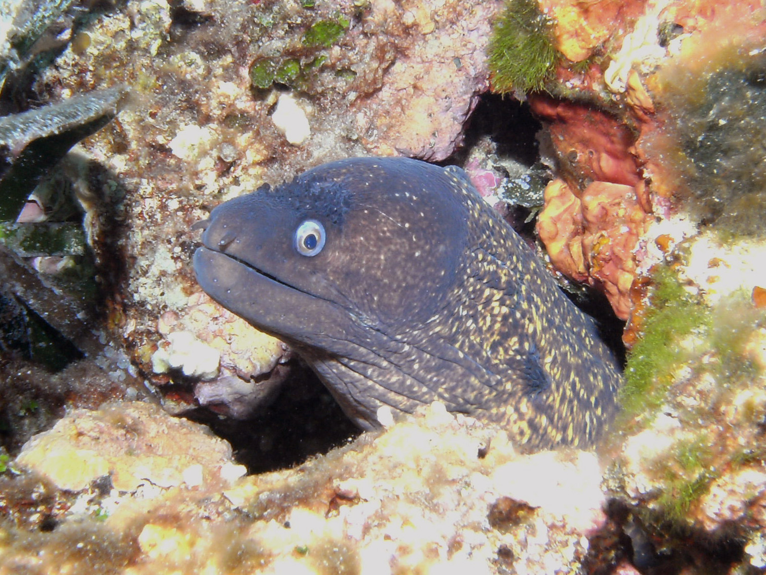 murena helene